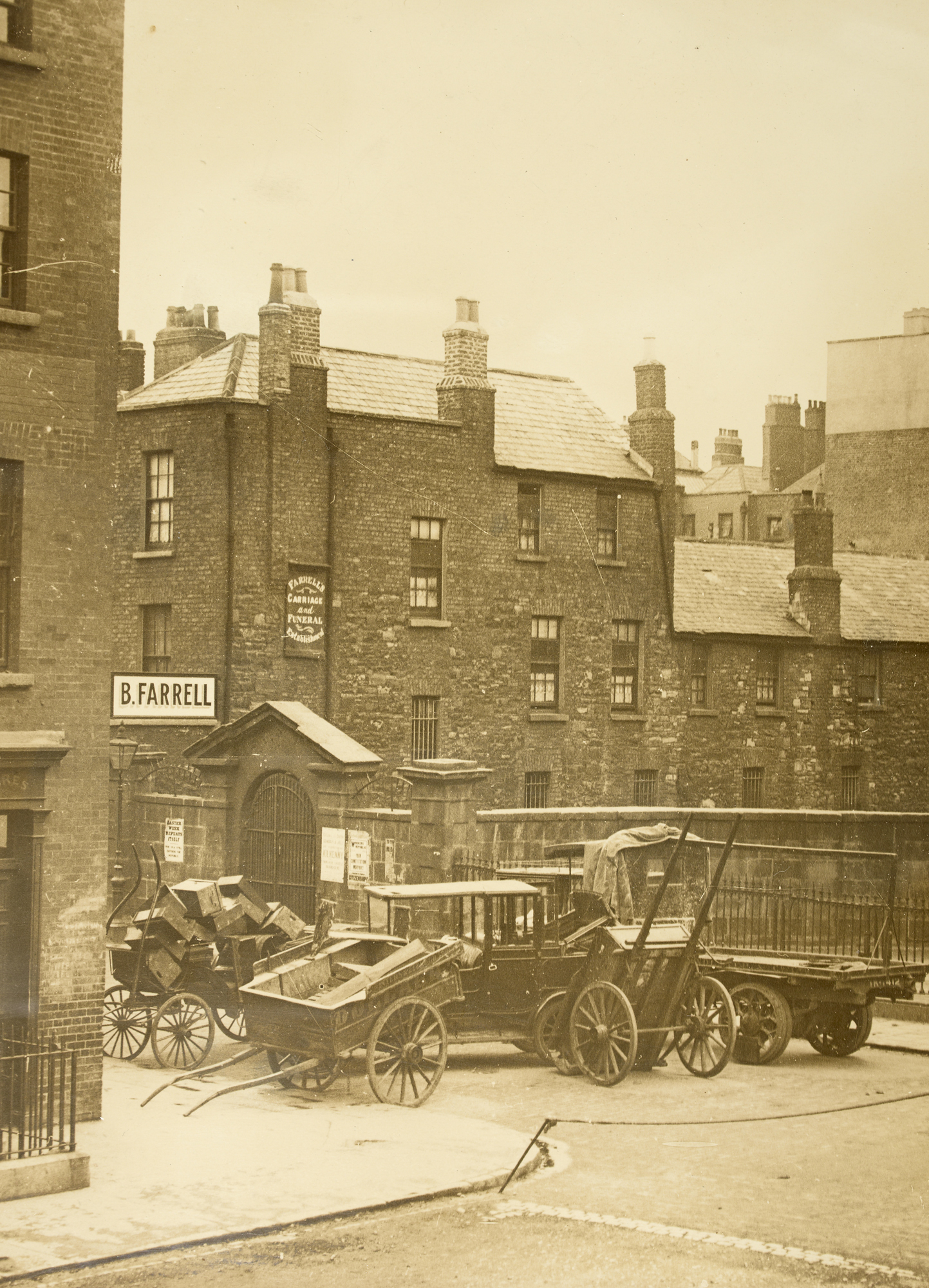 Our first visit to the Hogan-Wilson for this year, and an intriguing image of cars, carts and carriages across the entrance to a street as some form of barricade. The name on the premises behind may assist in a location but what was going on and why the blockage? (FYI - It was great to see the response to yesterdays image with that wonderful poster proving its worth more than 100 years after it was posted!) And we had fantastic inputs on today's image also. There is clear consensus that Hogan took this image from the corner of Upper Gloucester Street (now Sean McDermott Street), looking south and down Marlborough Street. Probably in late June or very early July 1922. The business pictured behind the barricade, Farrell's Undertakers, was at 66 Marlborough Street. Immediately to the right, behind the wall and gate, was St Thomas' Church. This barricade was placed by anti-treaty irregulars during the 'Battle of Dublin' of the Irish Civil War. The church and much of the surrounding area was burned in early July 1922. In the decade after the civil war, the ruins were demolished, and the streets relaid to a sligtly different pattern. (The street is no longer the 'T-junction' we see here, and runs straight 'through' the wall and old church graveyard). A new St Thomas' Church was however built very closeby in 1930 - over what was the parish hall on Findlater Place.... Corner of present day Marlborough Street and Cathal Brugha Street (Formerly Gloucester Street)---- Photographer: W. D. Hogan Collection: Hogan Wilson Collection Date: Catalogue range c.1922. Likely June/July 1922 NLI Ref.: HOG144 You can also view this image, and many thousands of others, on the NLI’s catalogue at